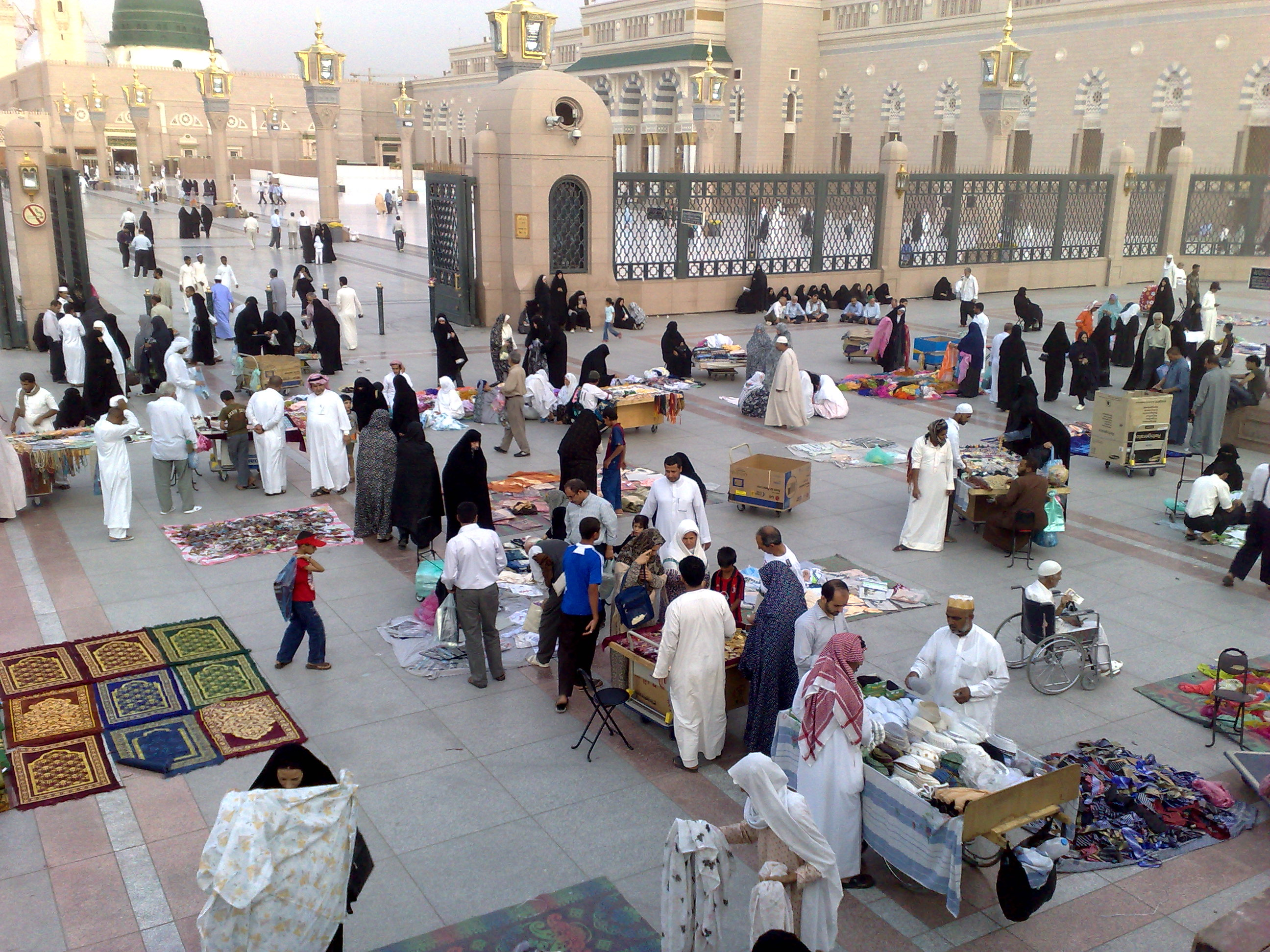 Outside of al-Masjid al-Nabawi in Medina, Saudi Arabia, after morning pray